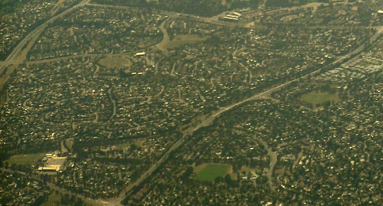 Florey, Australian Capital Territory aerial view from west, Scullin in bottom right, slight snip of north-most corner of Florey